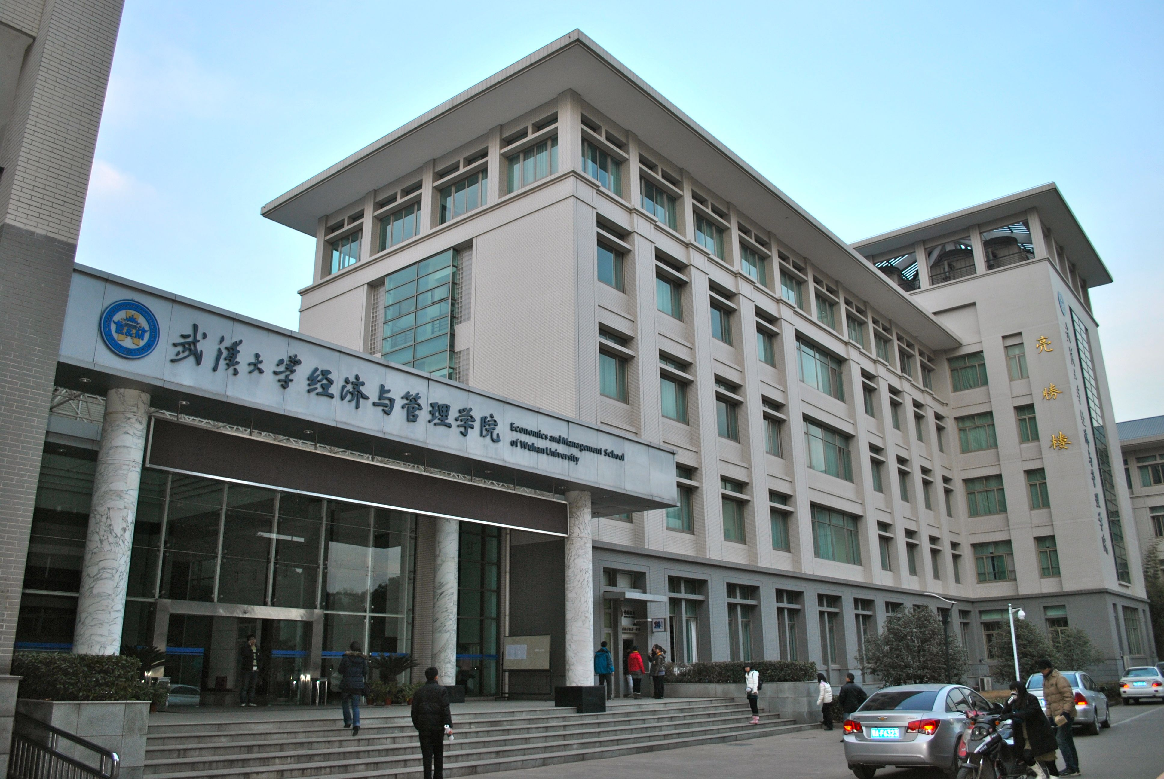 Economics and Management School (previously known as School of Business), Wuhan University